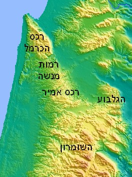 Topographic map of Israel. Created with GMT from SRTM data.